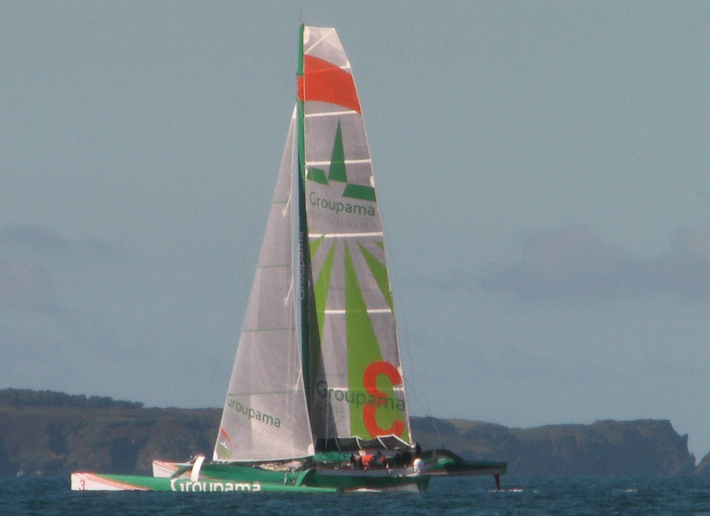 Groupama 3 under sails, Southern Britanny, sideview